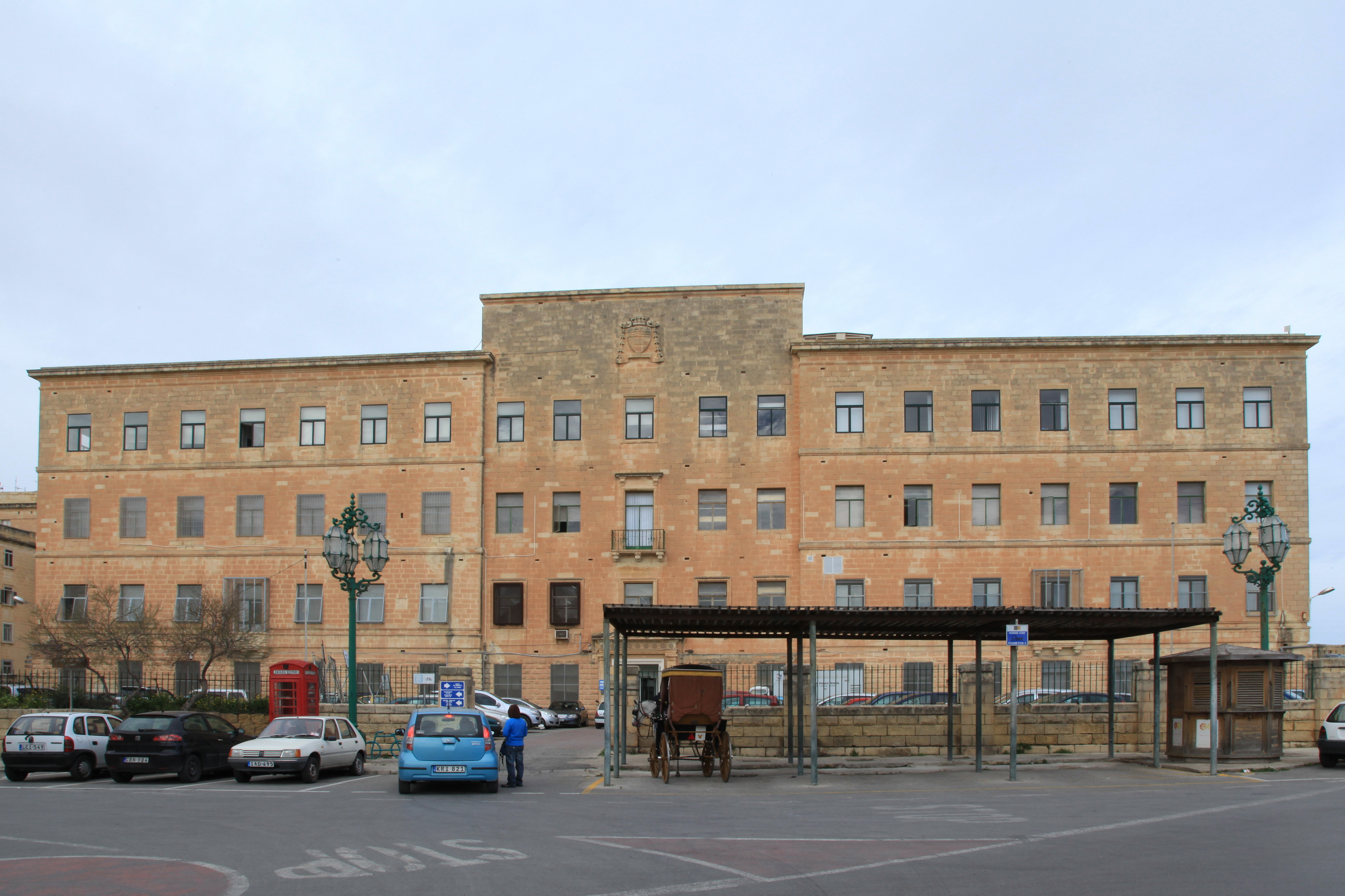 Evans Building at Triq it-Tramuntana in Valletta, Malta